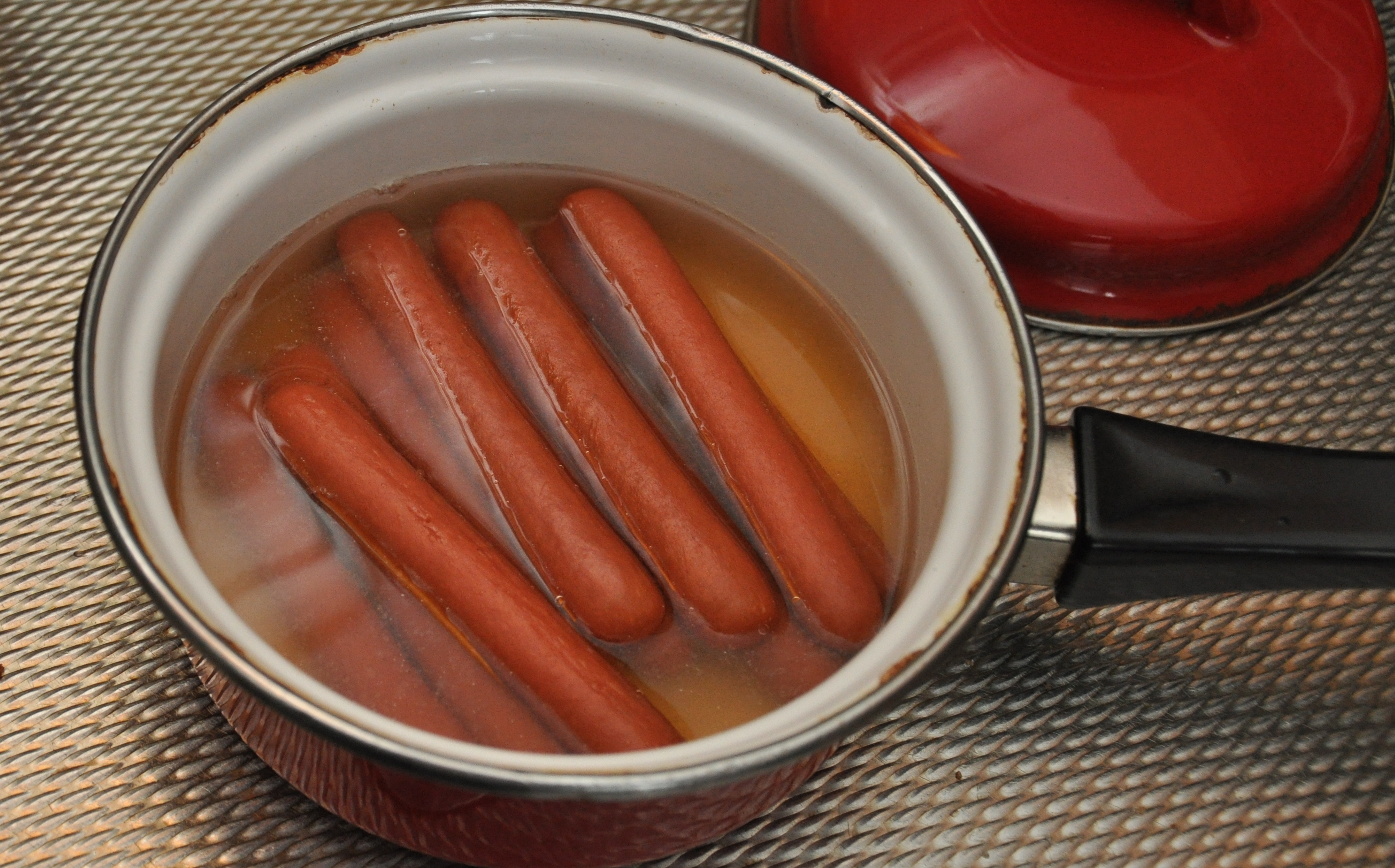 knakworst